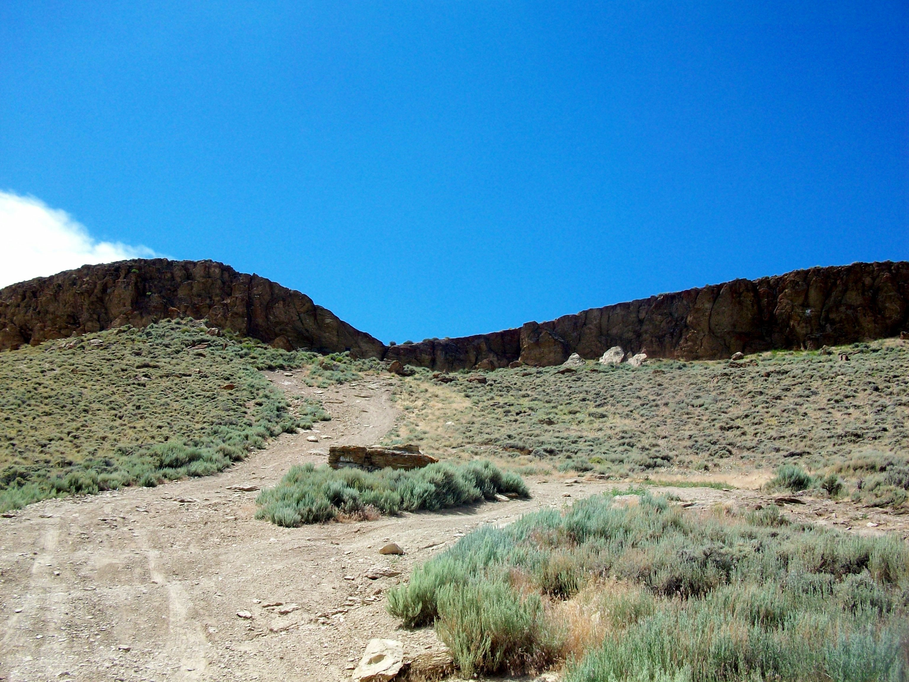 Pilot Butte atop White Mountain (Wyoming) up close. Looking west, at the butte.